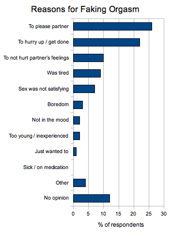 ABC News 2004 "The American Sex Survey" results on faking orgasm